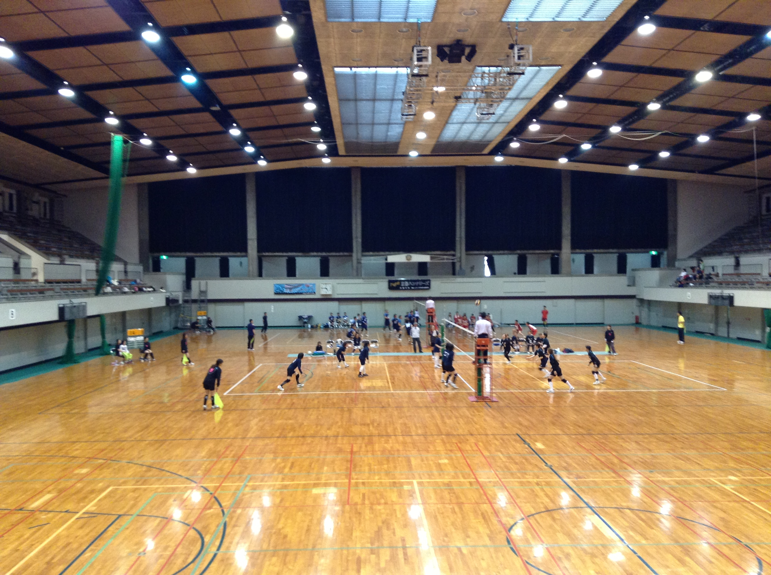 the court of Hannaryz arena